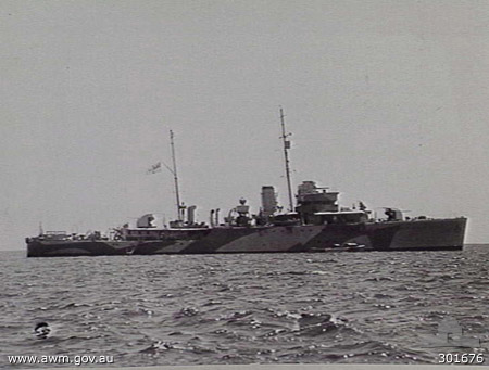 AWM caption : "PORT MORESBY, NEW GUINEA. 1941-12-30. STARBOARD BROADSIDE VIEW OF THE SLOOP HMAS WARREGO (II). SHE IS ARMED WITH 4 INCH MARK XVI GUNS IN A TWIN MARK XIX MOUNTING FORWARD IN A POSITION AND A SINGLE MARK XX MOUNTING AFT IN X POSITION. THEY ARE CONTROLLED BY THE HIGH ANGLE CONTROL SYSTEM SITED BEHIND THE BRIDGE. A QUADRUPLE .5 INCH VICKERS AA MACHINE GUN IS FITTED IN B POSITION. NOTE THE KITE/OTTERS AND FLOATS OF THE OROPESA MINESWEEPING GEAR AFT. SHE IS CAMOUFLAGED IN A SCHEME OF TWO GREYS, PROBABLY 507A (THE DARKER) AND 507C".